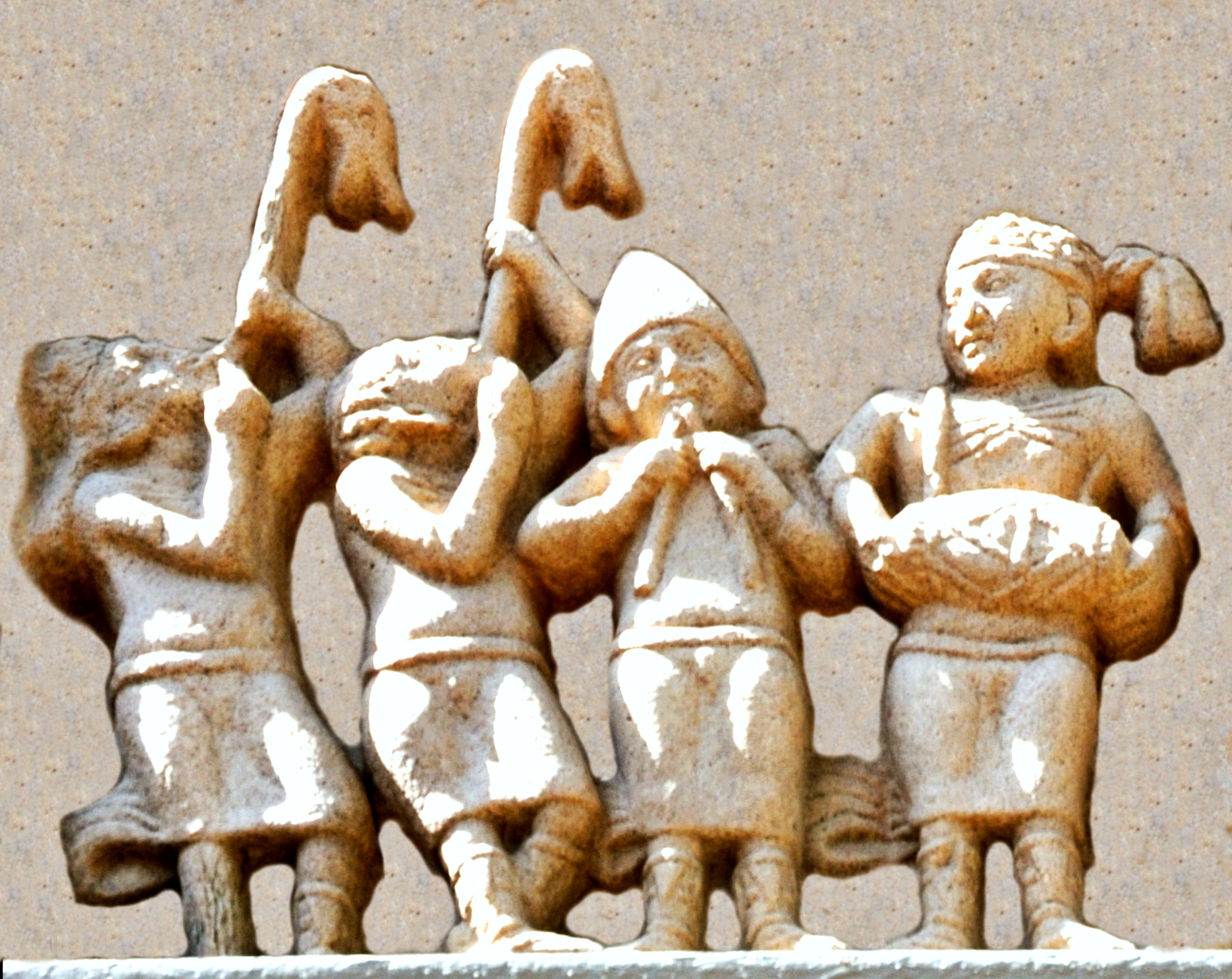 Foreigners in Greek dress playing carnyxes and aolus flute at Sanchi